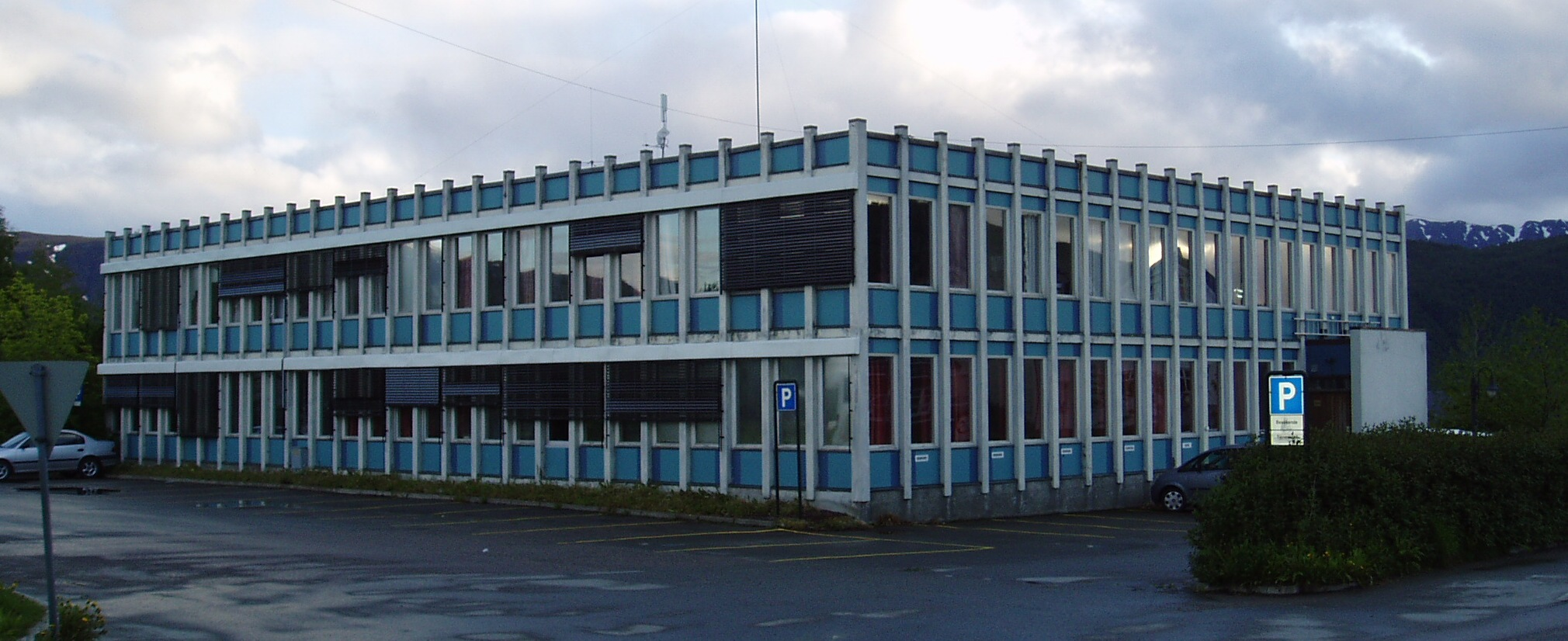 Town hall of Kvæfjord municipality, Troms, Norway.